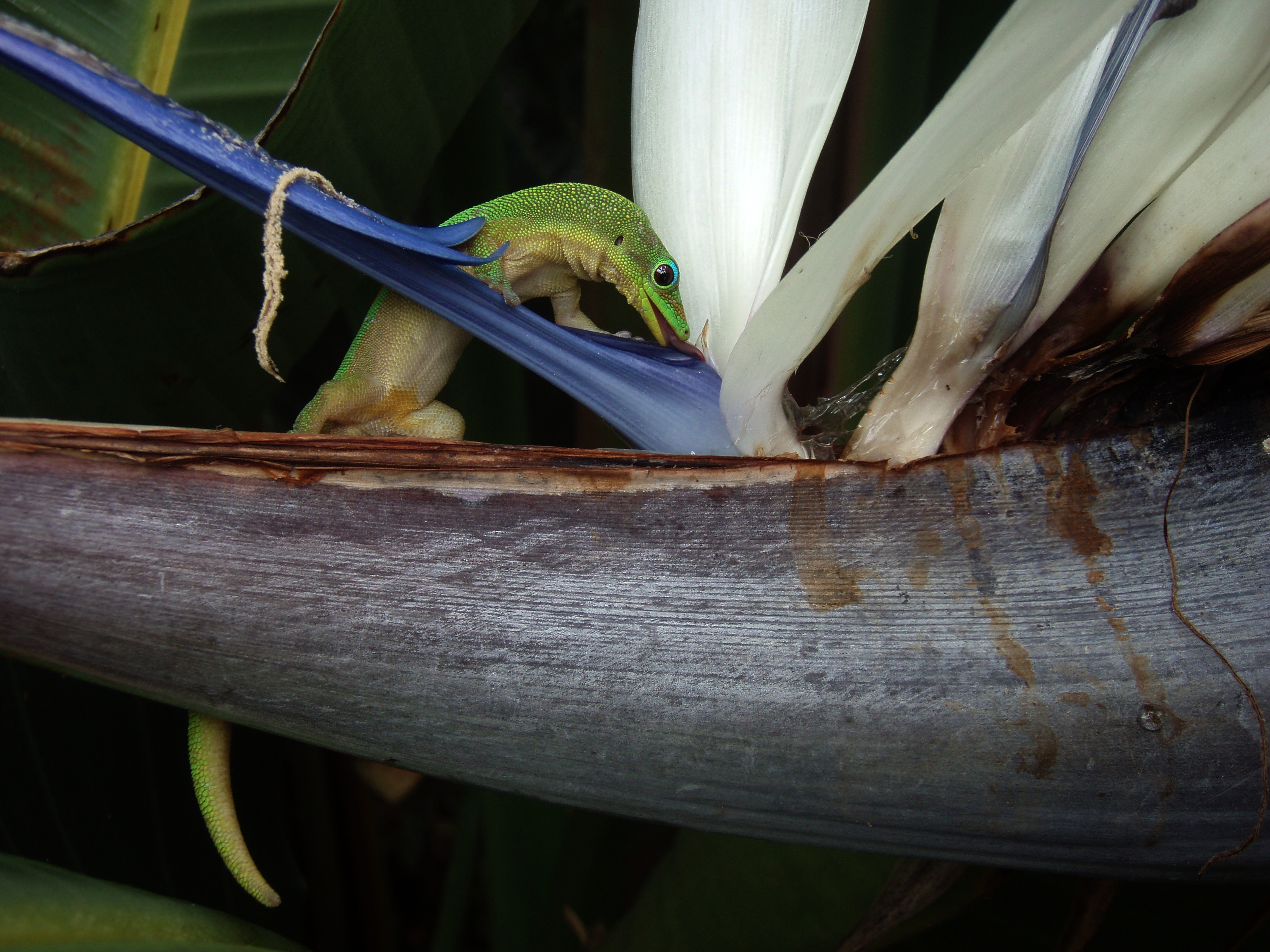 Gold dust day gecko licking nectar from Bird of Paradise flower. The image was taken at Kona, Hawaii.